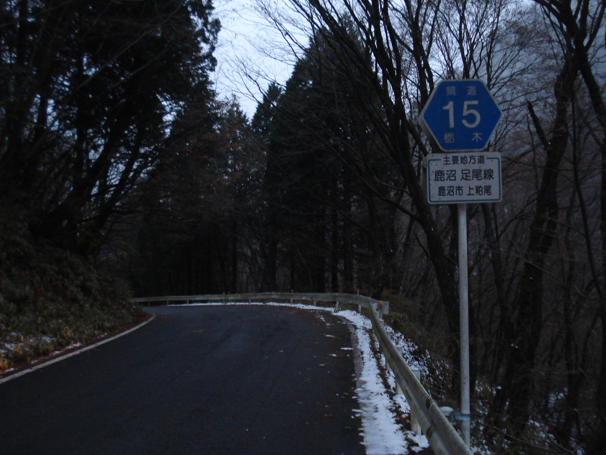 The Tochigi Prefectural Road Route 15 in Kamikasuo, Kanuma City